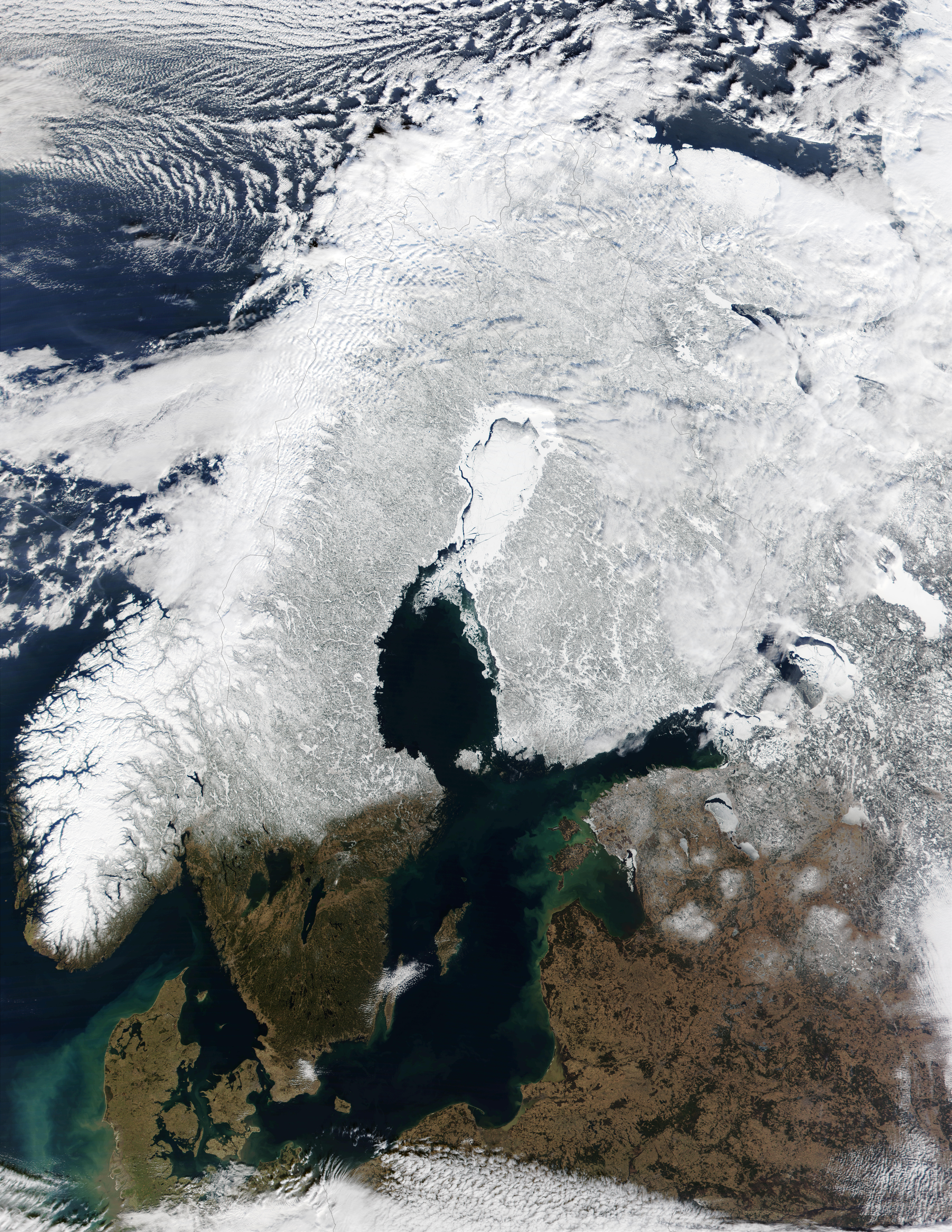 Snow Cover Across Scandinavia. In this mostly cloud-free true-color scene, much of Scandinavia can be seen to be still covered by snow. From left to right across the top of this image are the countries of Norway, Sweden, Finland, and northwestern Russia. The Baltic Sea is located in the bottom center of this scene, with the Gulf of Bothnia to the north (in the center of this scene) and the Gulf of Finland to the northeast.